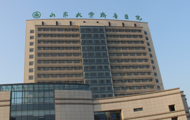 qilu hospital